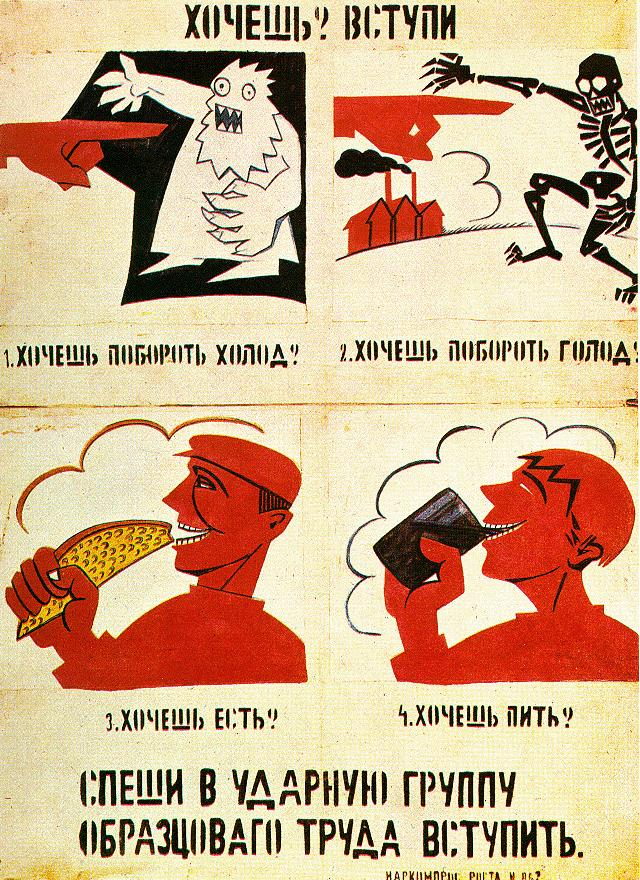 AgitProp Plakat Majakowski / große Version Verwendung: "You are allowed to download and use these images as you desire." (Public Domain)